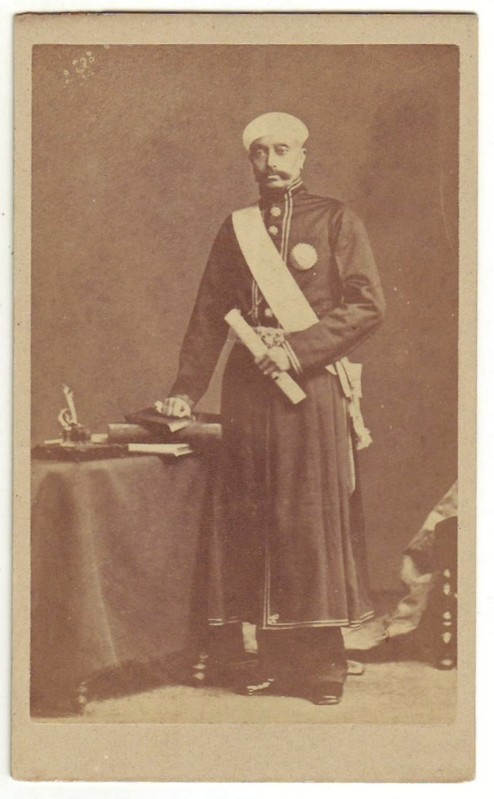 Sir Salar Jung in another undated photo, possibly by Deen Dayal Source: ebay, Sept. 2007